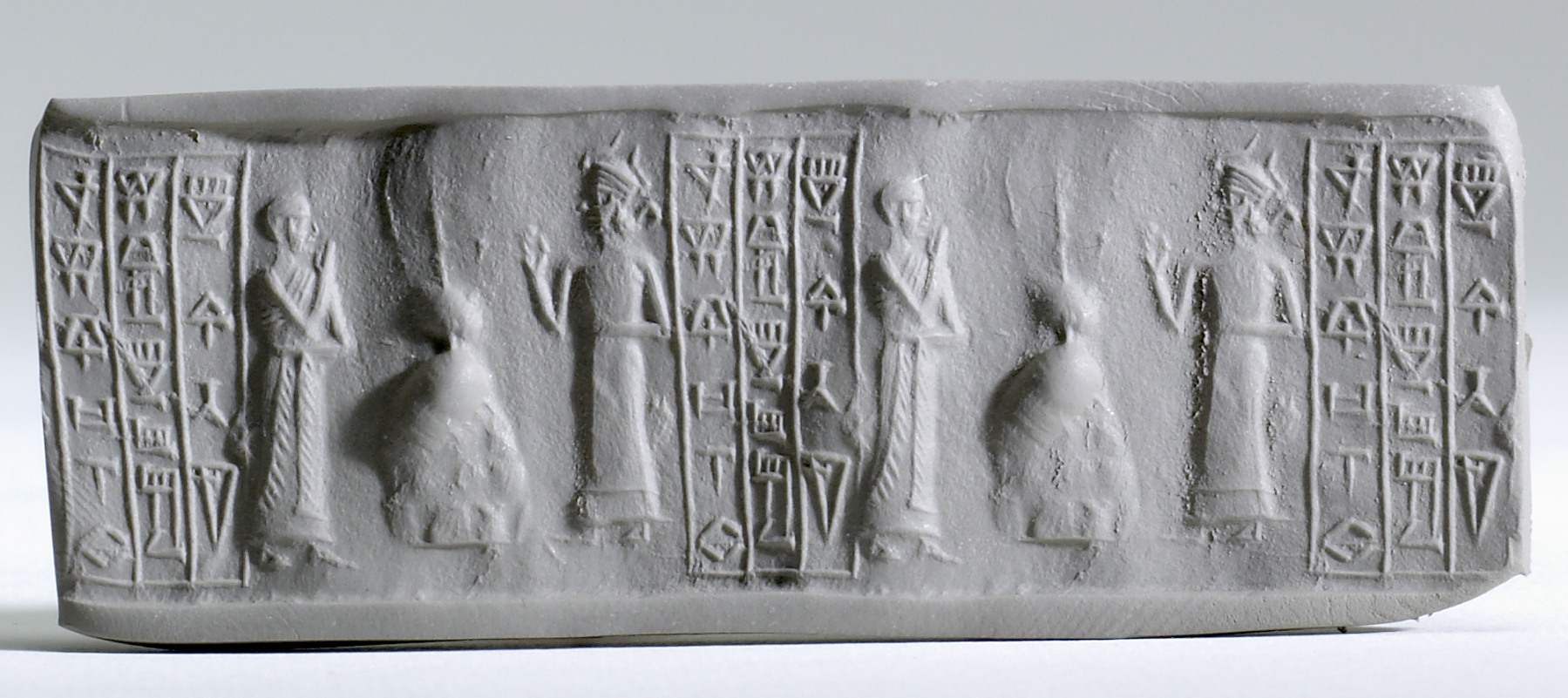 The depicted scene features a standing goddess in long robe, with one arm raised, wearing a horned headdress. Before her is a standing worshipper, also in a long robe, with one arm raised. Between them is a small shrine (?). There is a cuneiform inscription incorporated into the scene, in three registers.